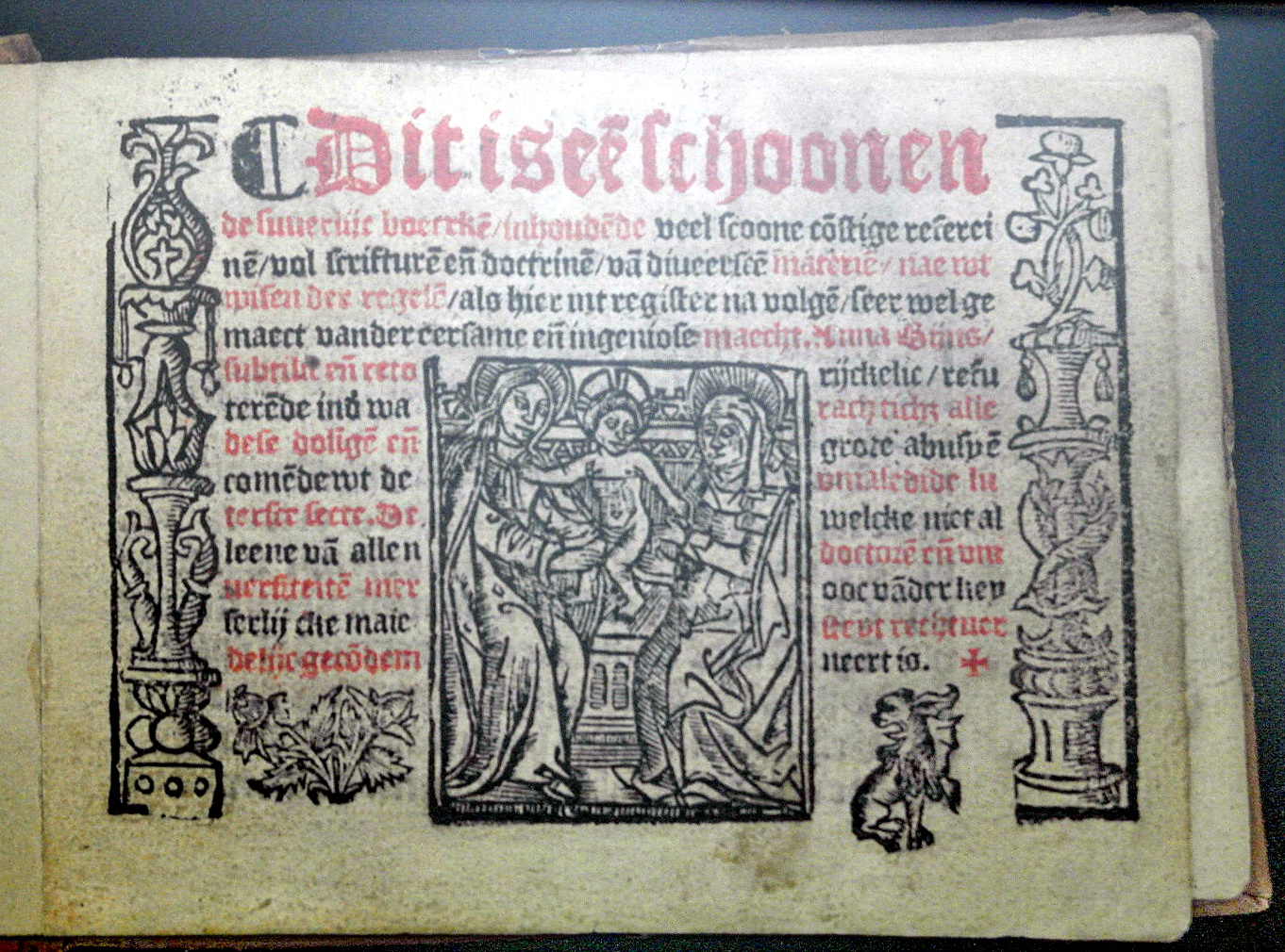 Songbook of Dutch songs (1528) by Anna Bijns. Book collection of Centre Céramique, Maastricht, the Netherlands.